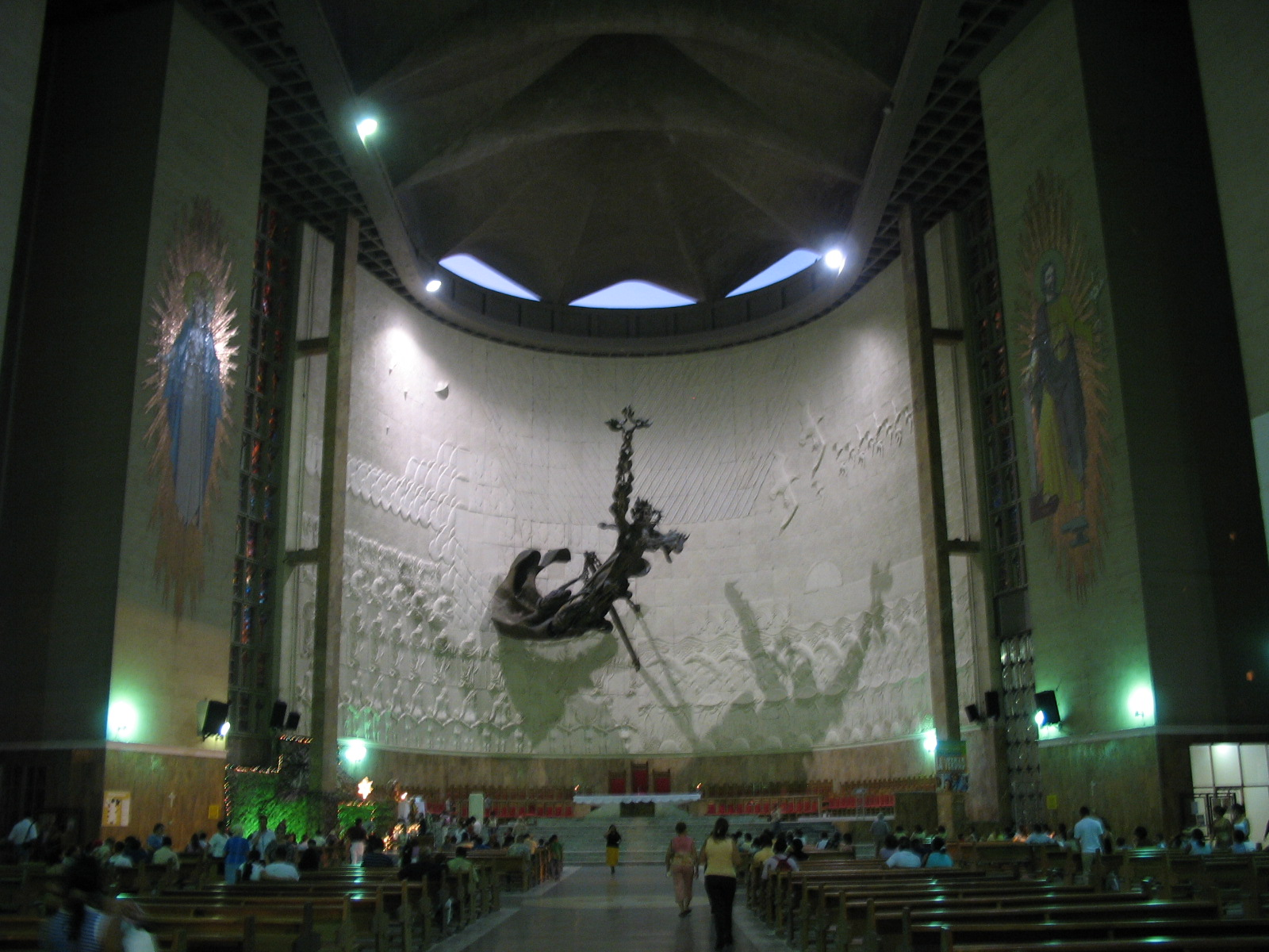 Barranquilla - Interior of the Cathedral